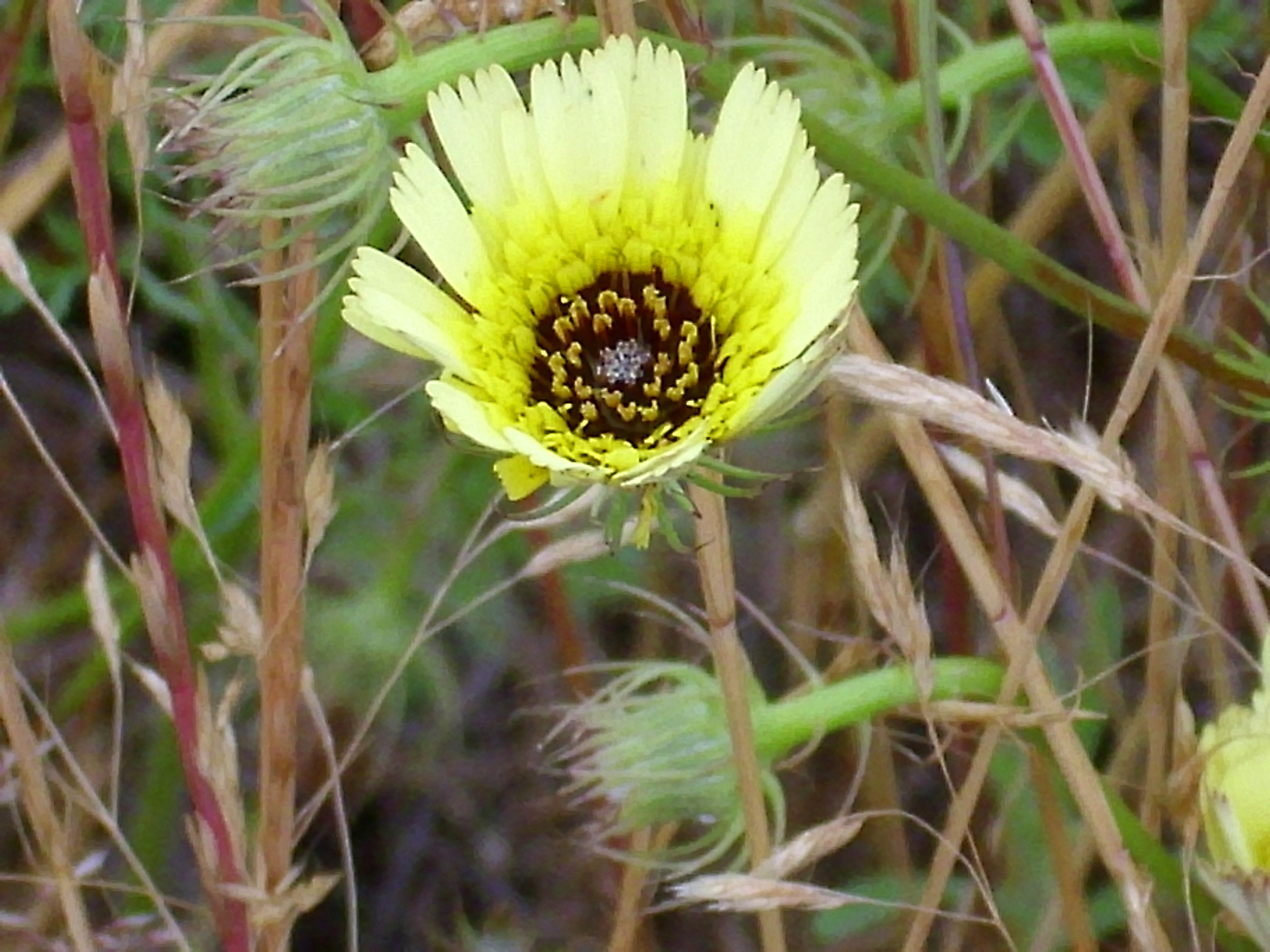 Hispidella hispanica inflorescence, Dehesa Boyal de Puertollano, Spain